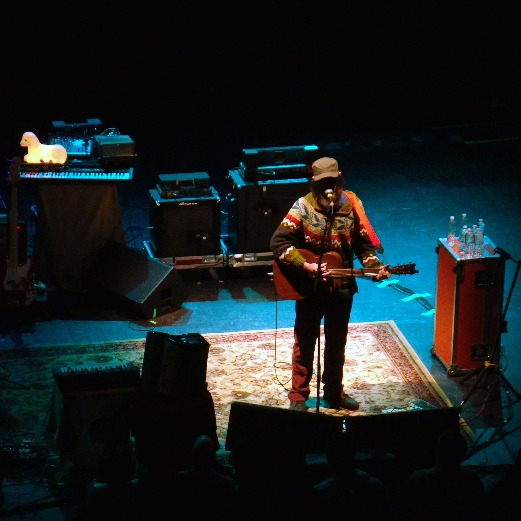 Jeff Mangum of Neutral Milk Hotel plays guitar at the Orpheum Theater in Boston, MA on January 16th 2014